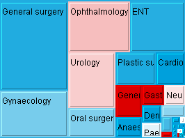 Extract of a heatmap showing changes in aggregated waiting times from 2004 to 2005 for ordinary and day-care patients who are the responsibility of Primary Care Trusts in England. Data is aggregated by area of specialisation. For more details on Heatmapping see Wikipedia:Treemapping. The image was produced using Heatmap Tools from Incito Ltd.